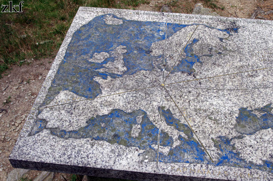 Map showing the center of Europe at the border under Dyleň.